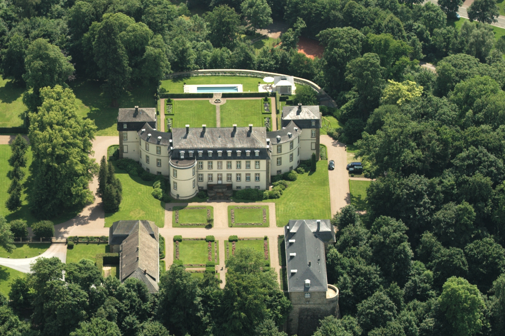 Fotoflug Sauerland-Ost – Wünnenberg (Schloss Fürstenberg) The making of this document was supported by the Community-Budget of Wikimedia Germany.